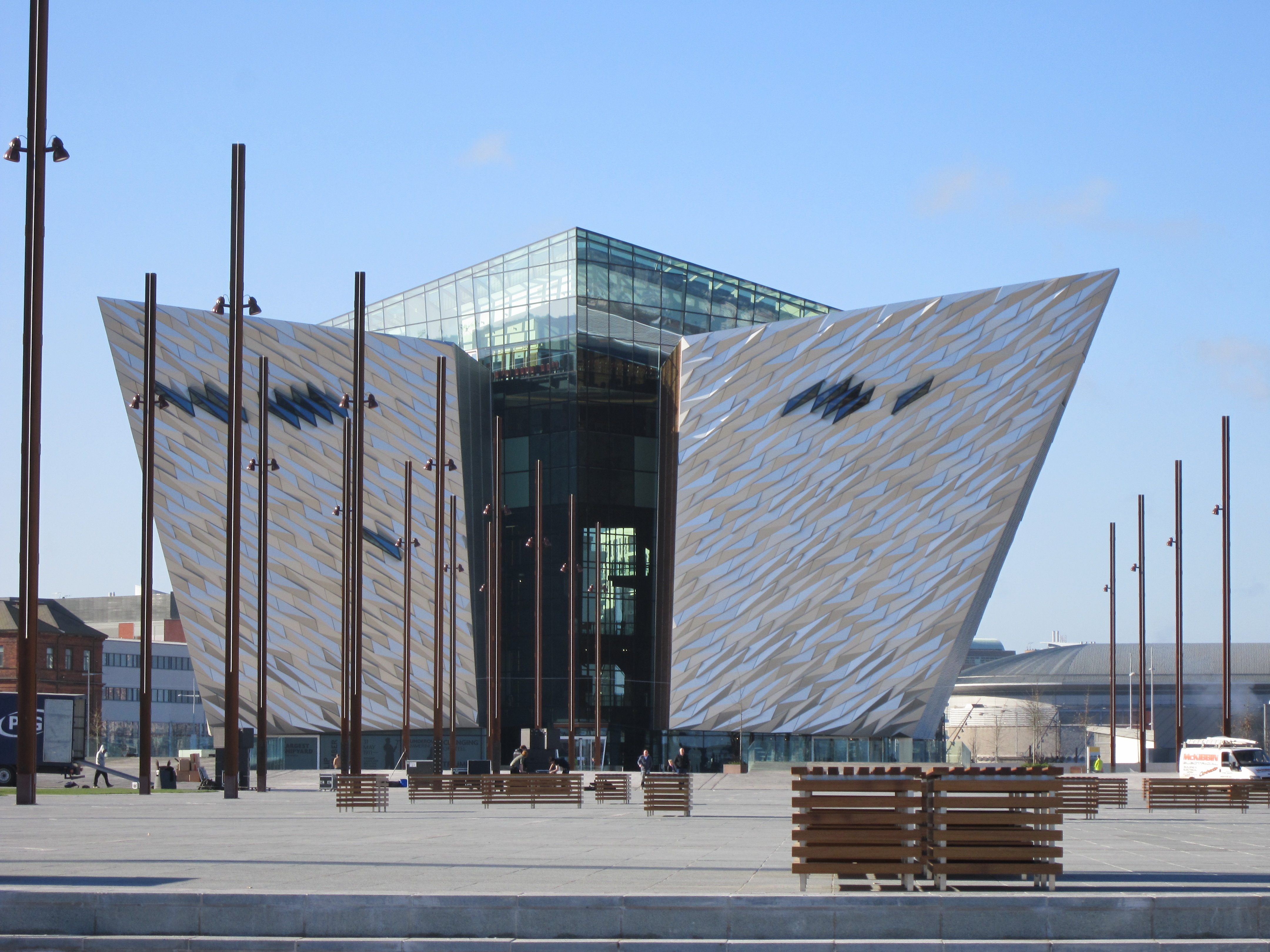 Exterior front view of Titanic Belfast